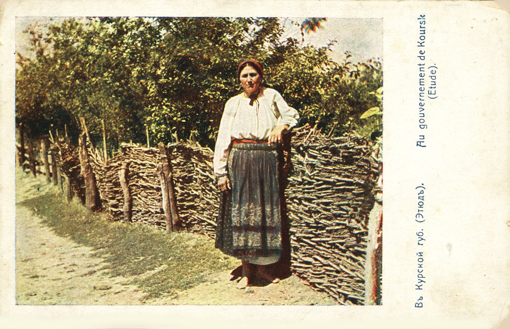 Original description: In Ukraine. Album: Various views and studies, Russian Empire and Europe, LOT 10333, no. 18.